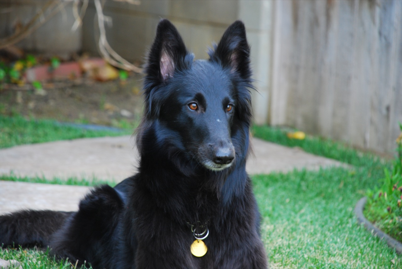 A four-year-old female Belgian Groenendael.Asha